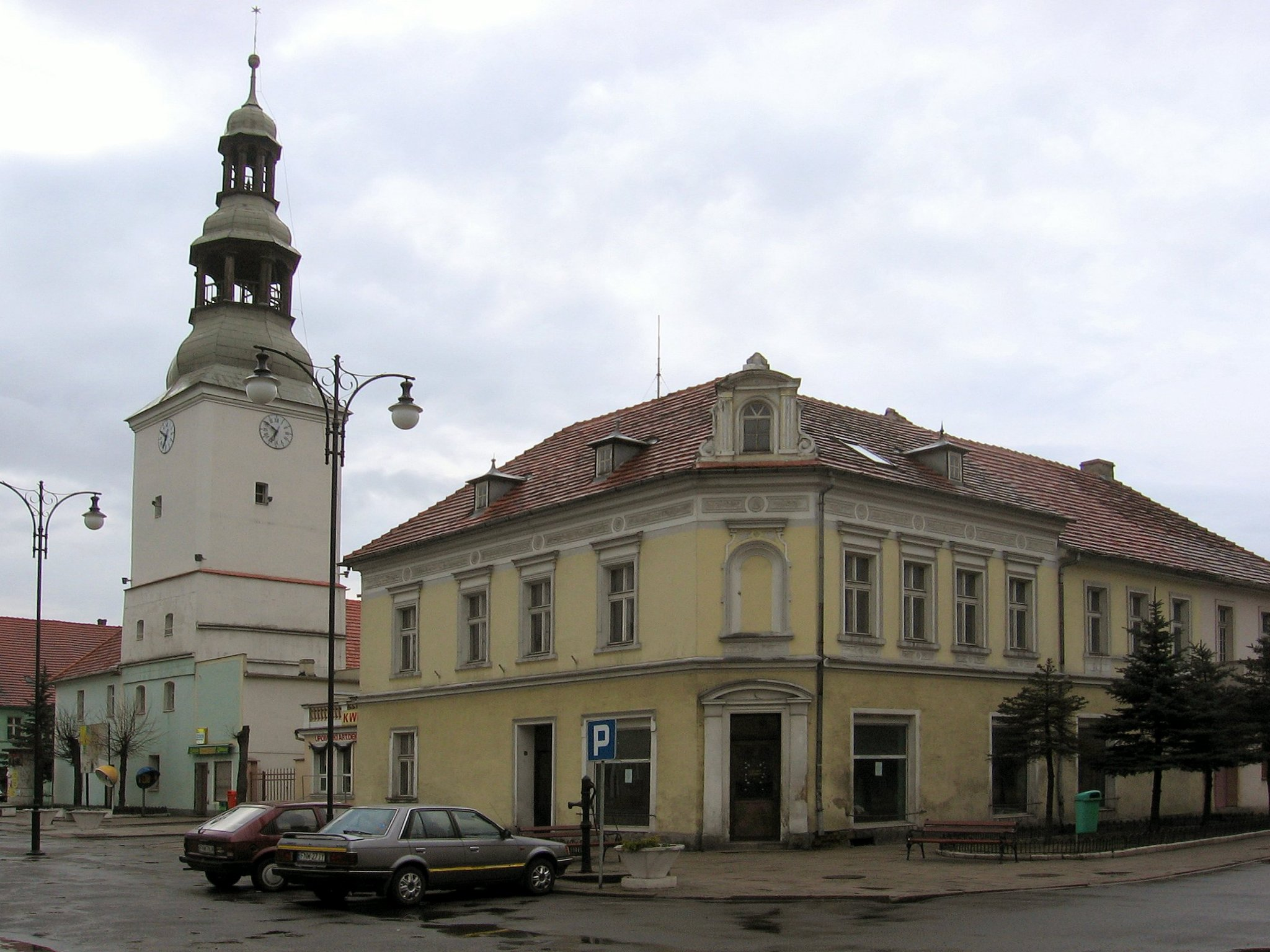 town Nowe Miasteczko, Poland - central square with town hall tower